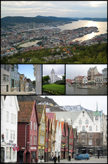 A collage of Bergen, Norway